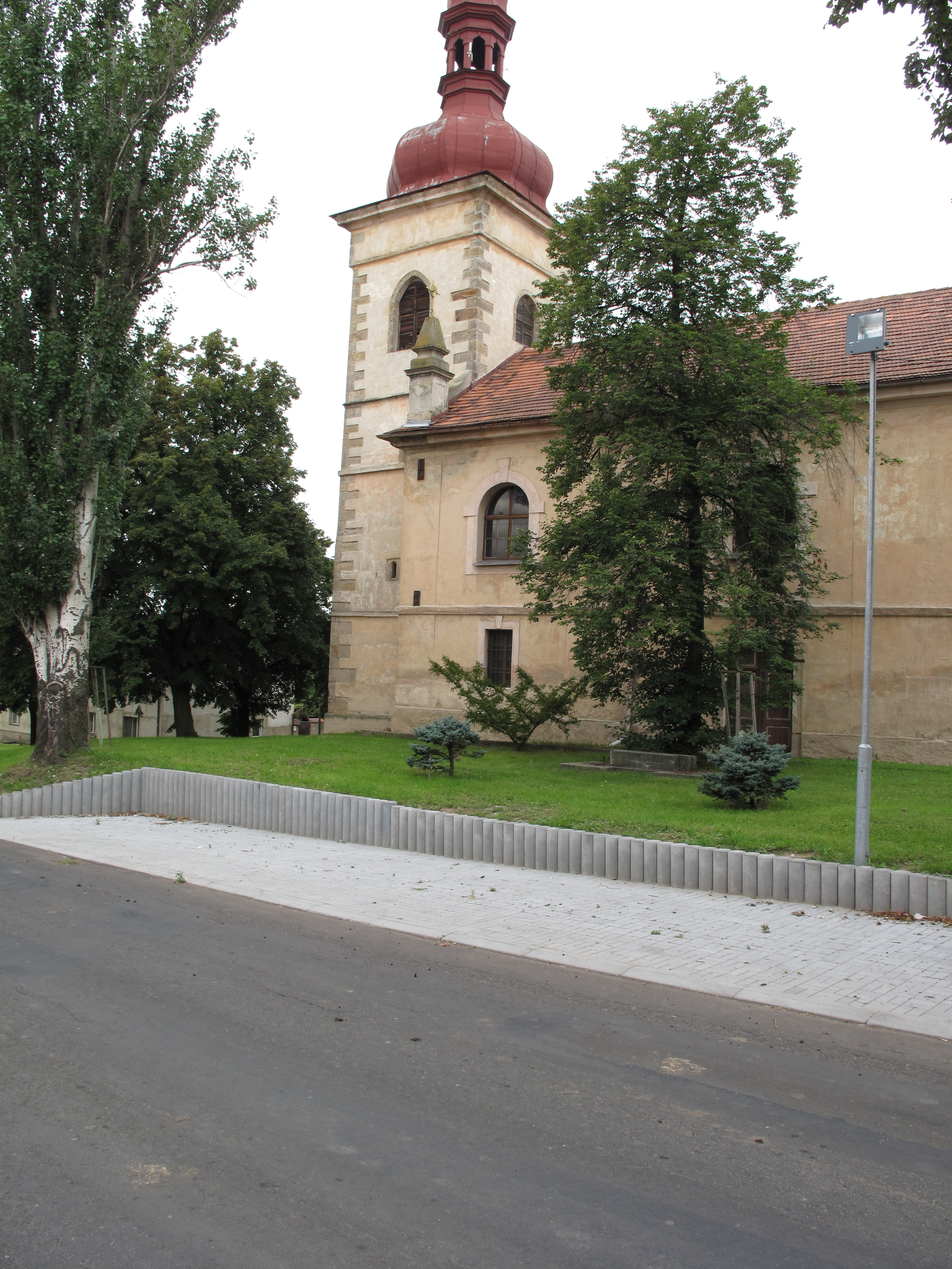 The Church of St. Barholomew as seen from municipal office in Siřejovice village, Litoměřice District, Czech Republic.